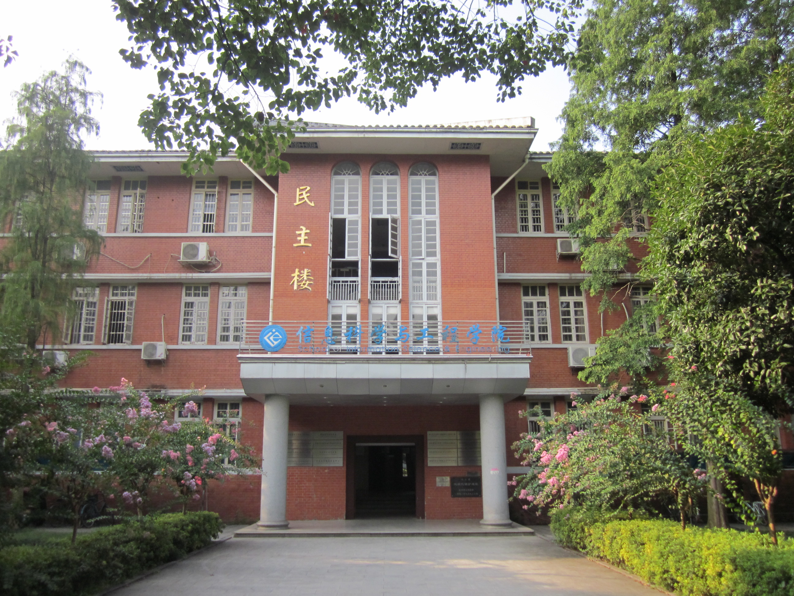 Central South University (CSU